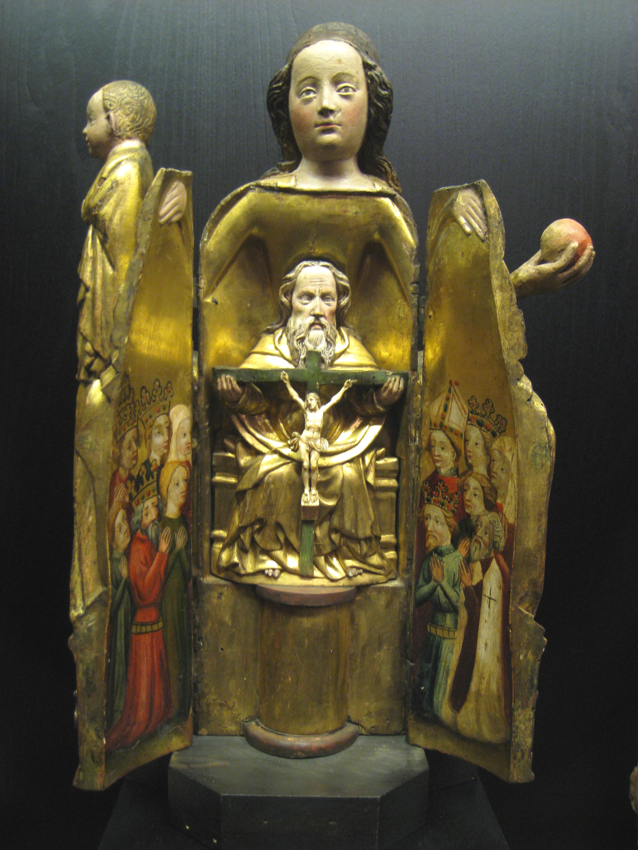 Hôtel de Cluny, Paris, France - reliquary. This work is from the middle ages, and the museum imposed no restrictions on photography (except for prohibiting flash) both in writing and when I explicitly asked. Thus the original work itself is free from intellectual property restrictions.